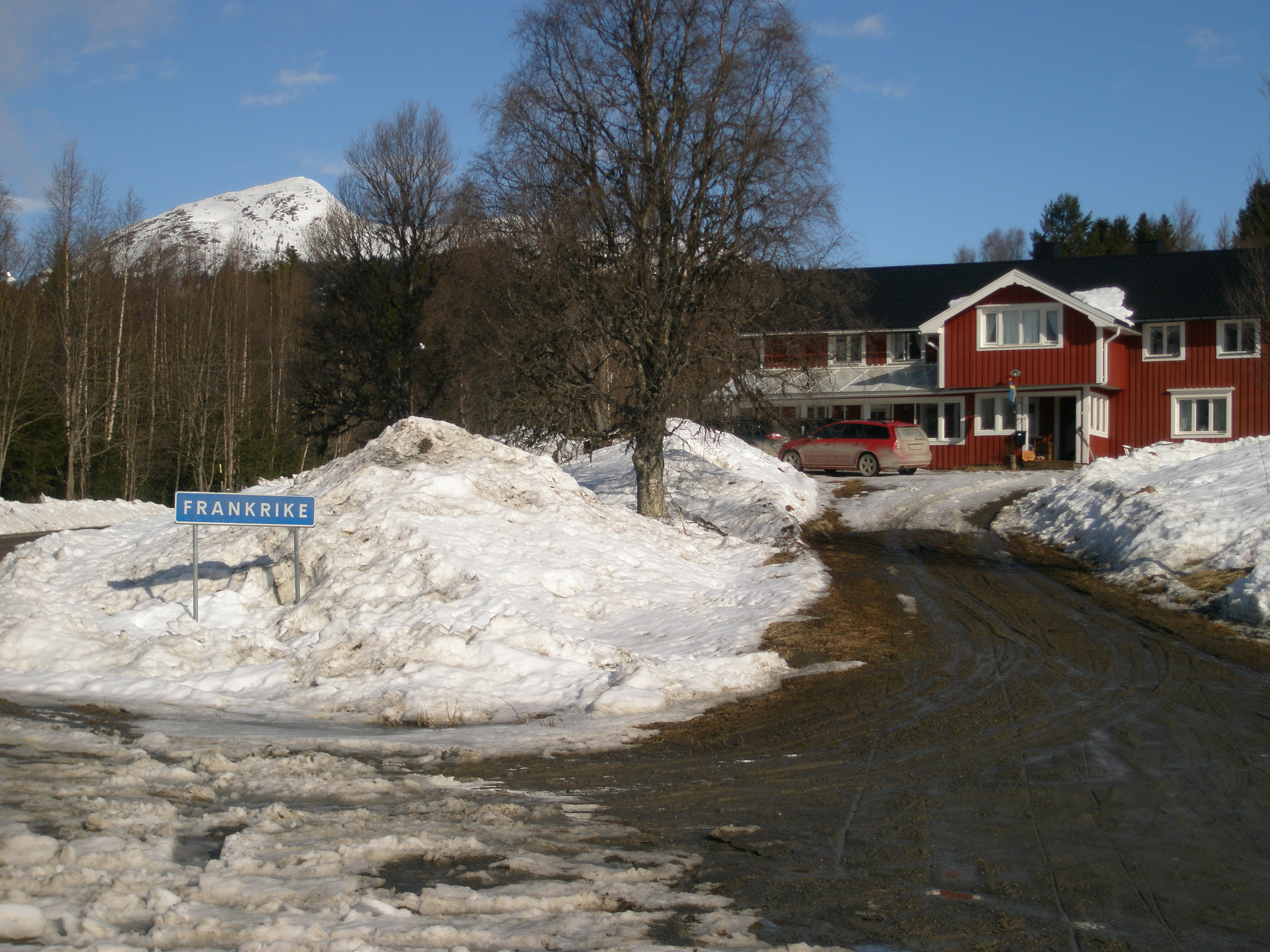 Frankrikegården, Frankrike, Offerdal, Krokoms kommun, Jämtland, Sweden.